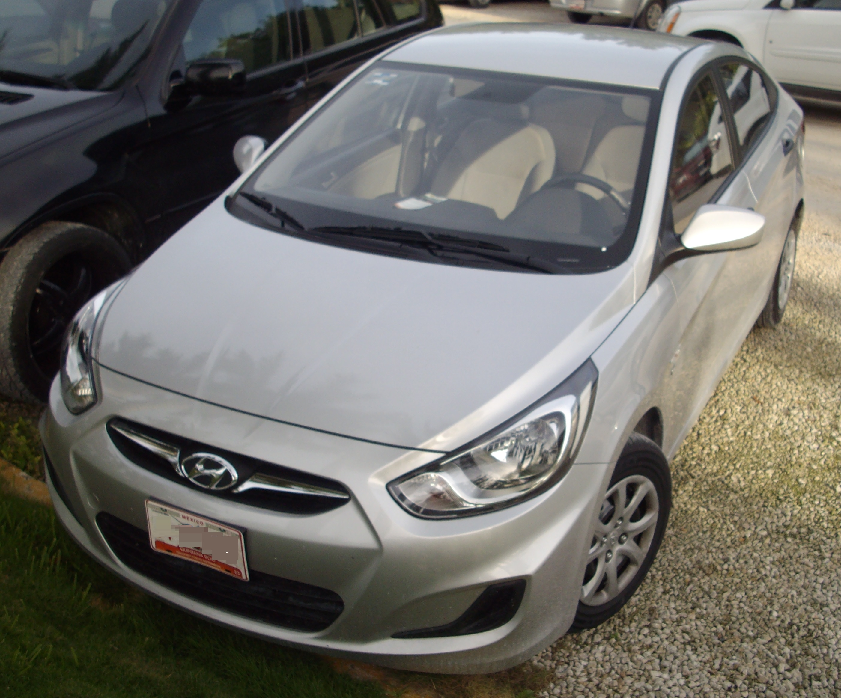 2012 Dodge Attitude photographed in Quintana Roo, Mexico.